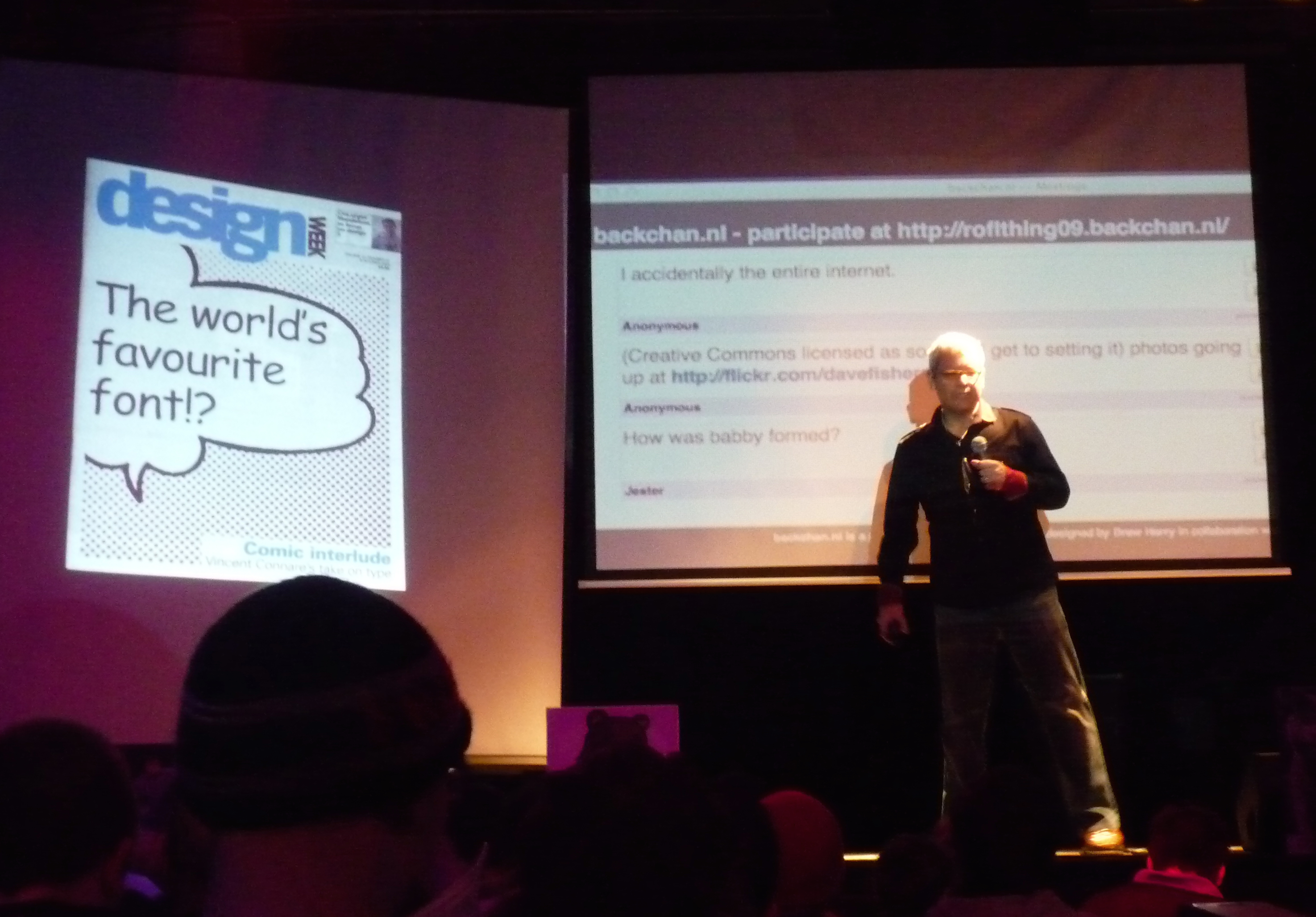 Vincent Connare explains how he came to create 'the world's favorite font', Comic Sans.